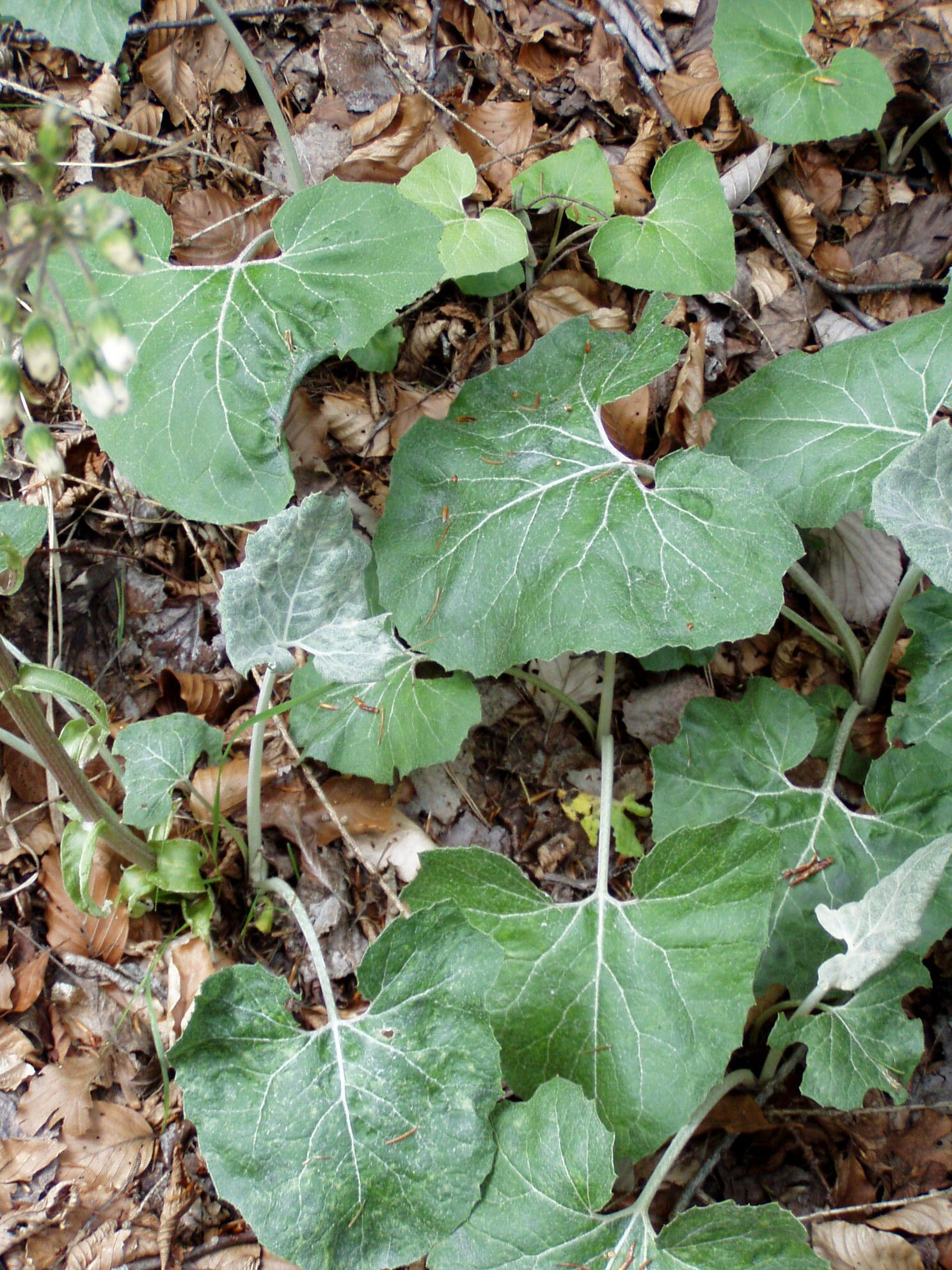 Petasites paradoxus, leaves, Tscheppaschlucht, Karawanken, Carinthia